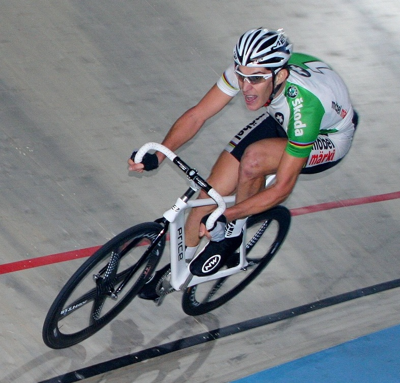 Franco Marvulli. Bycicle racer. Olympic Silver Medallist, World Champion. In Zürich 2009, he won his 28. sixday race.